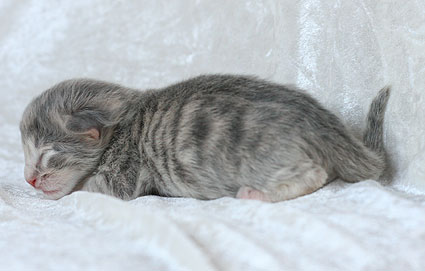 Norwegian Forest Kitten amber colour